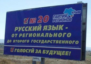 Russian as 2nd state language — Campaign poster for Party of the Regions (2012) — Crimea, Ukraine.